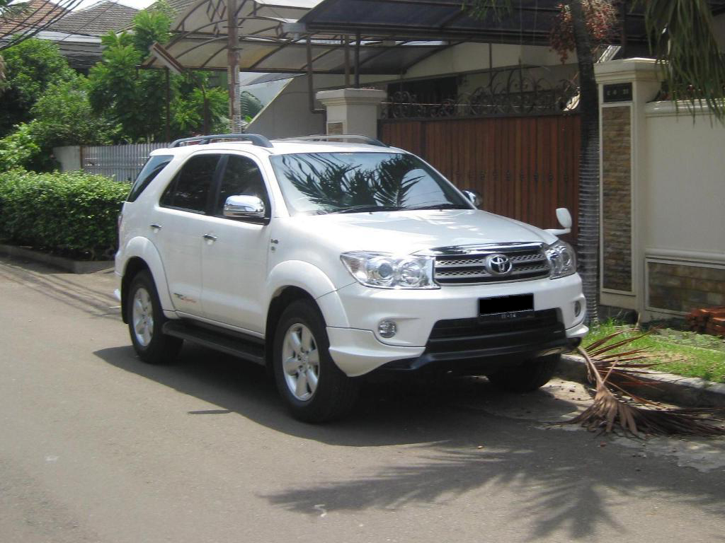 2009 Toyota Fortuner Diesel 2.5 G TRD Sportivo photographed in Jakarta, Indonesia.